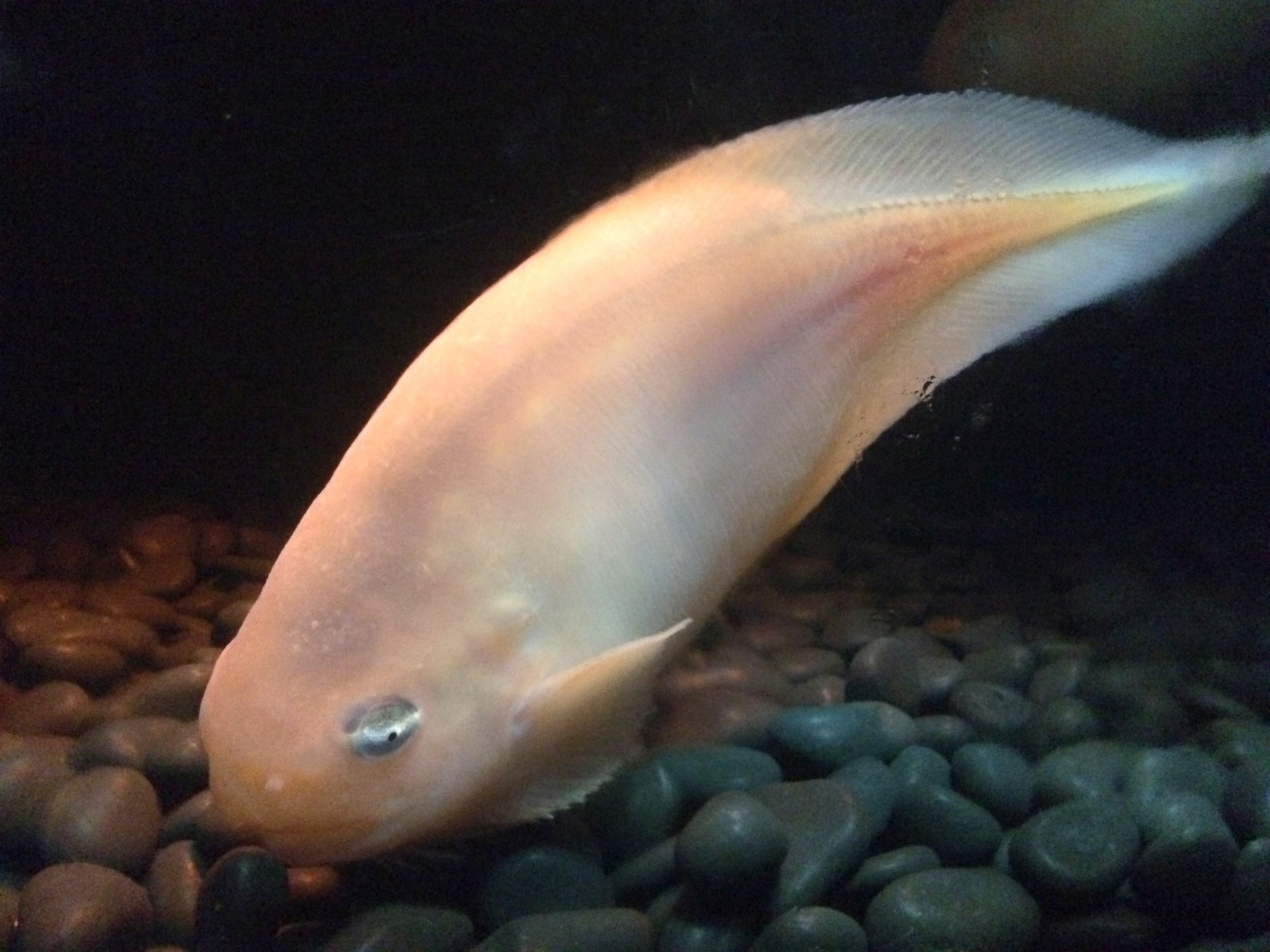 Careproctus rastrinus in Numazu Deepblue Aquarium, Sizuoka, Japan